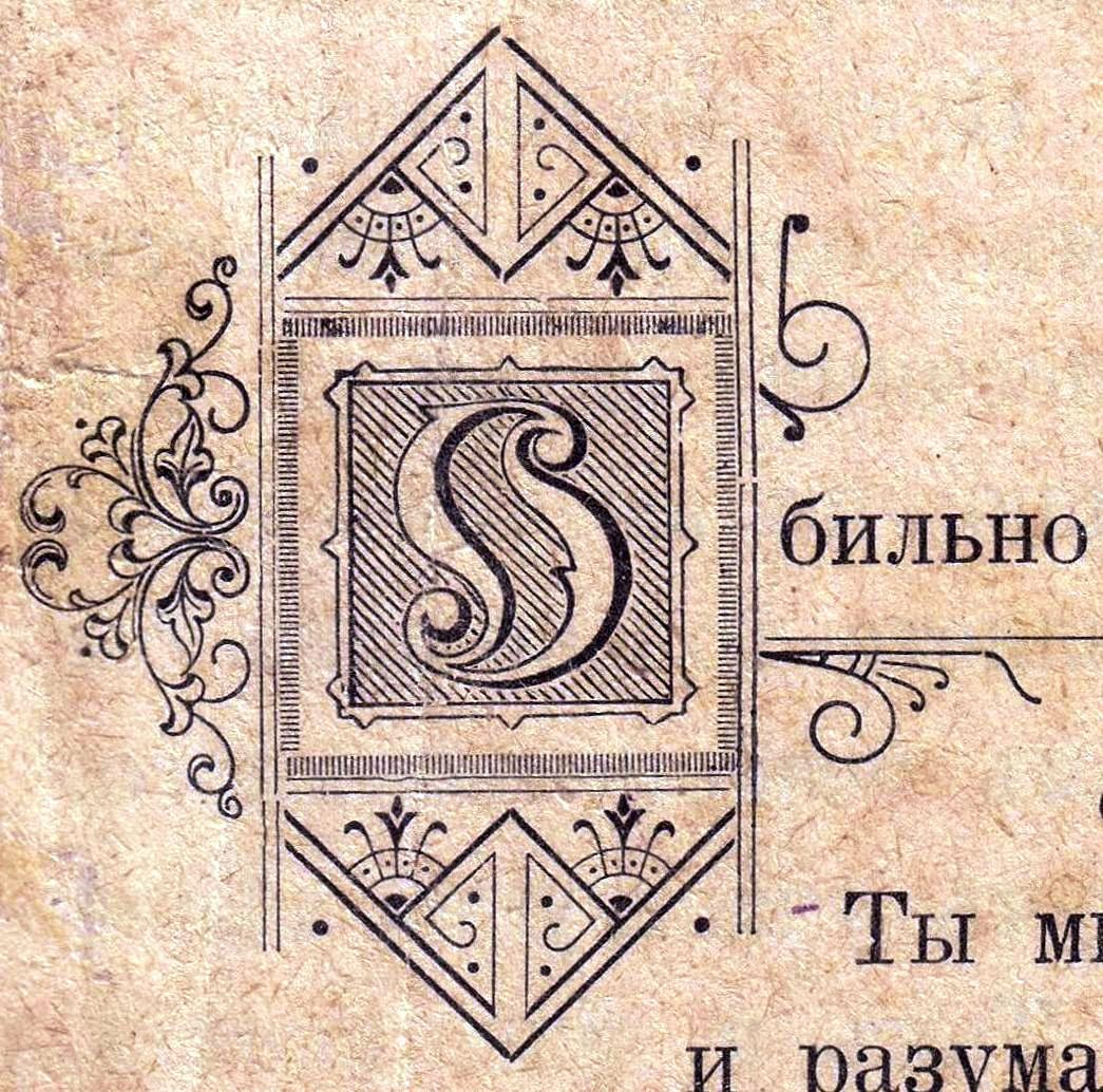 Russian letter O